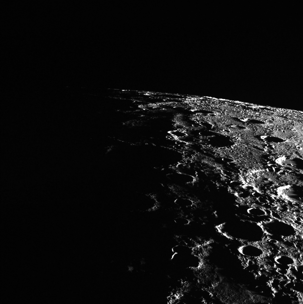 In this image, Mercury's horizon cuts a striking edge against the stark blackness of space. On the right, sunlight harshly brings the landscape into relief while on the left, the surface is shrouded in the darkness of night. This image was acquired as part of MDIS's limb imaging campaign. Once per week, MDIS captures images of Mercury's limb, with an emphasis on imaging the southern hemisphere limb. These limb images provide information about Mercury's shape and complement measurements of topography made by the Mercury Laser Altimeter (MLA) of Mercury's northern hemisphere. The MESSENGER spacecraft is the first ever to orbit the planet Mercury, and the spacecraft's seven scientific instruments and radio science investigation are unraveling the history and evolution of the Solar System's innermost planet. In the mission's more than three years of orbital operations, MESSENGER has acquired over 250,000 images and extensive other data sets. MESSENGER is capable of continuing orbital operations until early 2015. Credit: NASA/Johns Hopkins University Applied Physics Laboratory/Carnegie Institution of Washington NASA image use policy. NASA Goddard Space Flight Center enables NASA’s mission through four scientific endeavors: Earth Science, Heliophysics, Solar System Exploration, and Astrophysics. Goddard plays a leading role in NASA’s accomplishments by contributing compelling scientific knowledge to advance the Agency’s mission. Follow us on Twitter Like us on Facebook Find us on Instagram